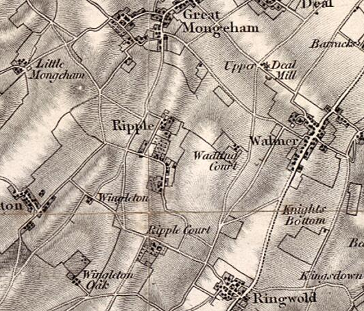 A 19th Century map showing the area of Ripple, Kent.